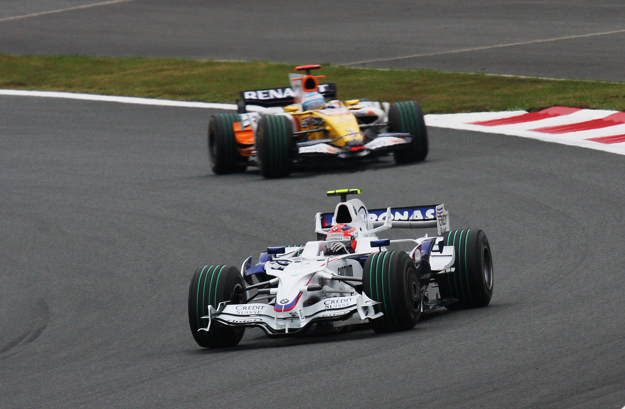 Formula One 2008 Rd.16 Japanese GP: Robert Kubica (BMW Sauber) leads the 2008 Japanese Grand Prix.